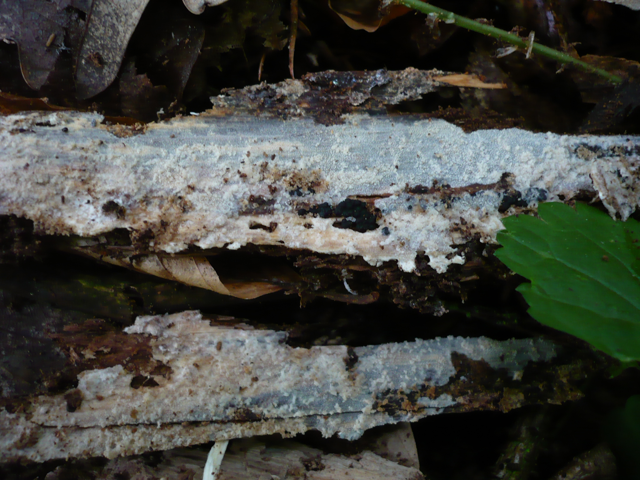 The crust fungus Resinicium bicolor. Specimen photographed in Gschloßriegel, Olbendorf, Bezirk Oberwart, Burgenland, Austria.